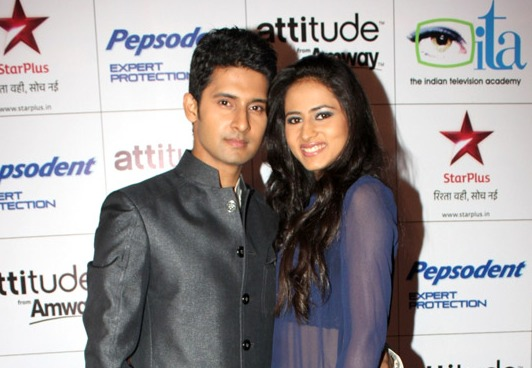 Ravi and Sargun at 12th Indian Television Academy Awards